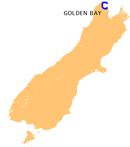 Location map of Golden Bay, New Zealand